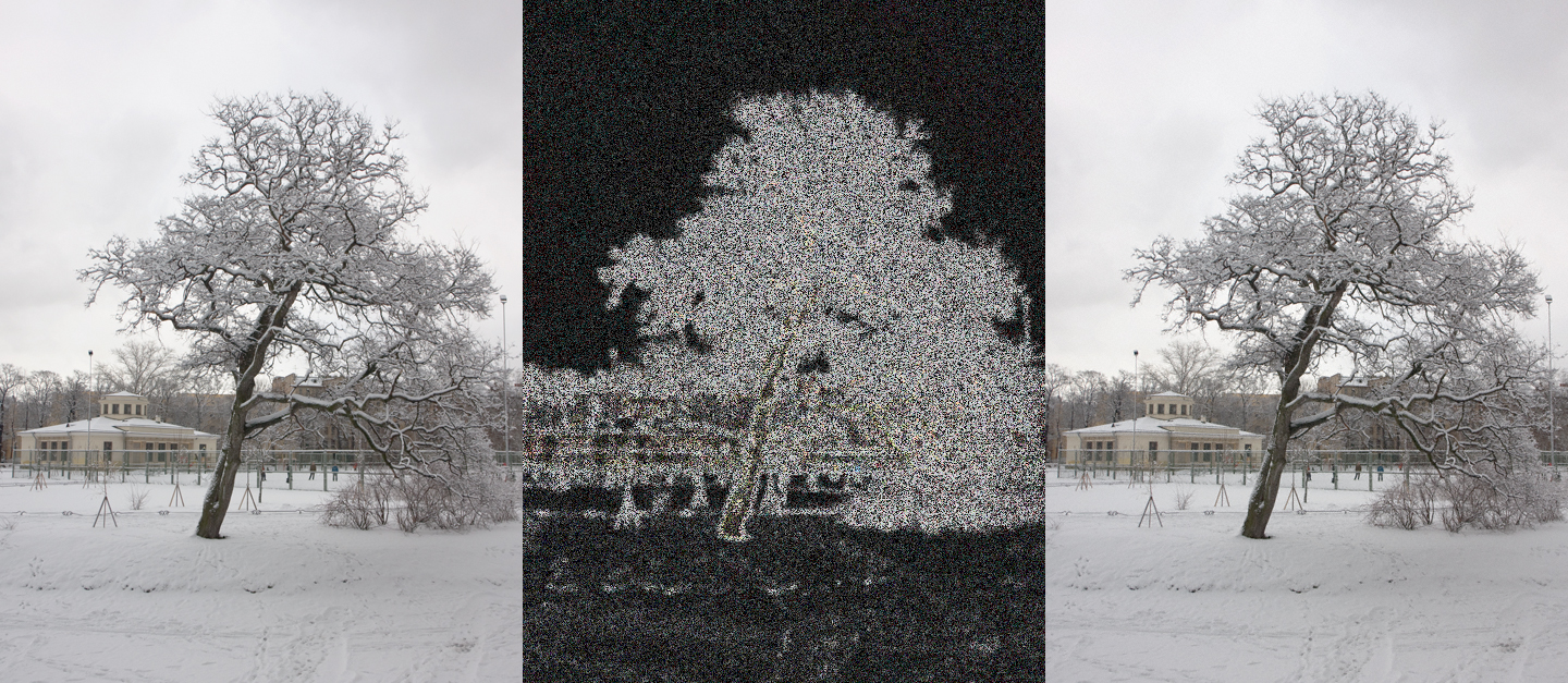 Normal image (left), Watermarked (right), Differece (highlighted).